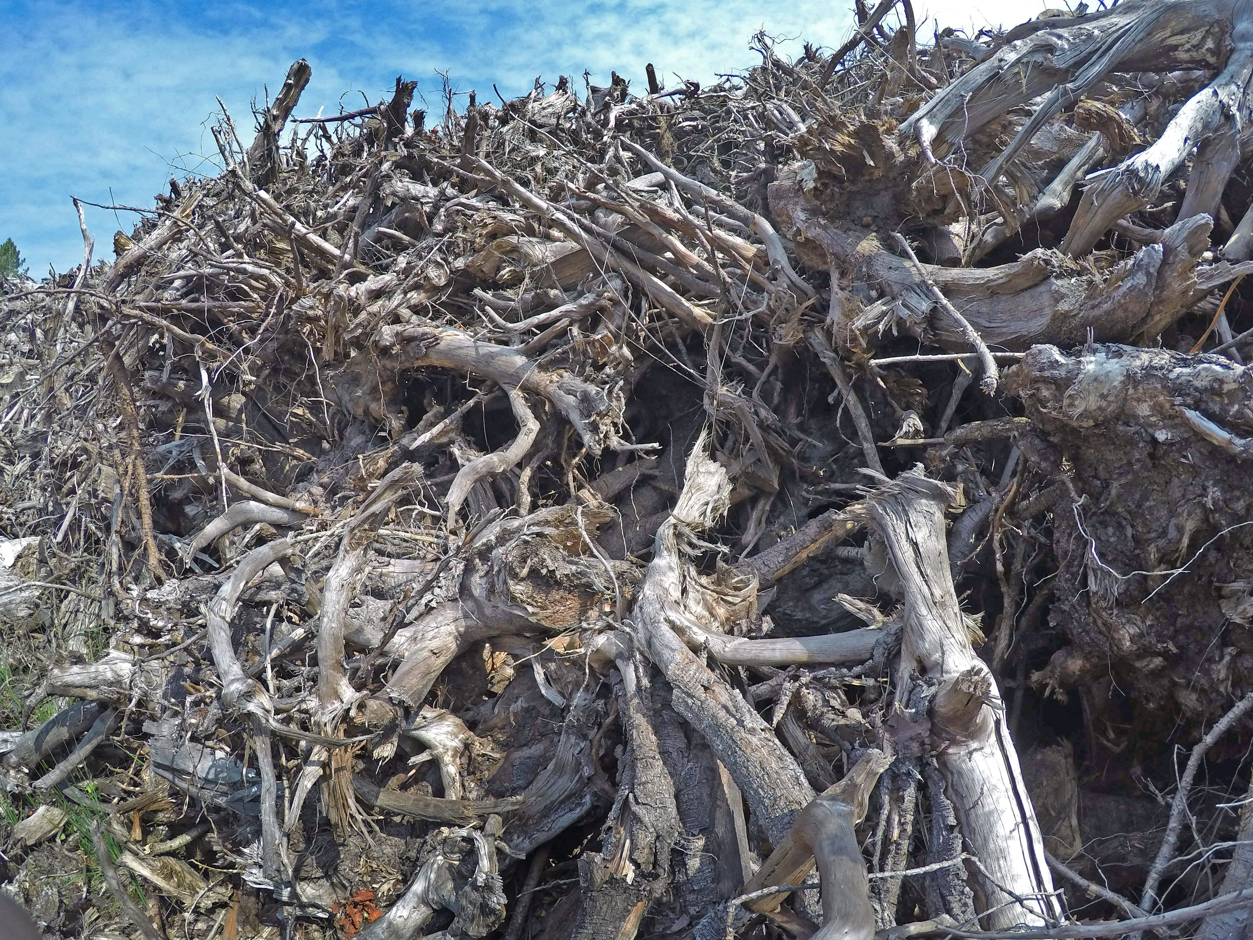 Empilement de milliers de souches de pins, après désouchage mécanique d'une coupe rase 2018 Landes de Gascogne, sur substrat sableux oligotrophe, dans un contexte de sylviculture très intensive. Ces souches auraient pu être une source de carbone et de mycéliums favorable à la conservation de l'eau et du carbone dans le sol, et à l' amélioration du sol (originellement non forestier dans cette région sableuse). Dans ce type de sylviculture, cette biomasse est difficile à valoriser thermiquement car contenant des restes de sables et d'éventuels cailloux qui usent ou cassent les couteaux de déchiquetage.